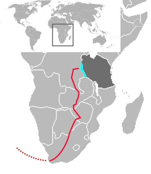 Approximate route of the two motorboats "Mimi" and "Toutou" overland to Lake Tanganyika (July-October 1915). Source: R.K. Lochner: Kampf im Rufiji-Delta. Wilhelm Heyne Verlag, München 1987, p. 324.